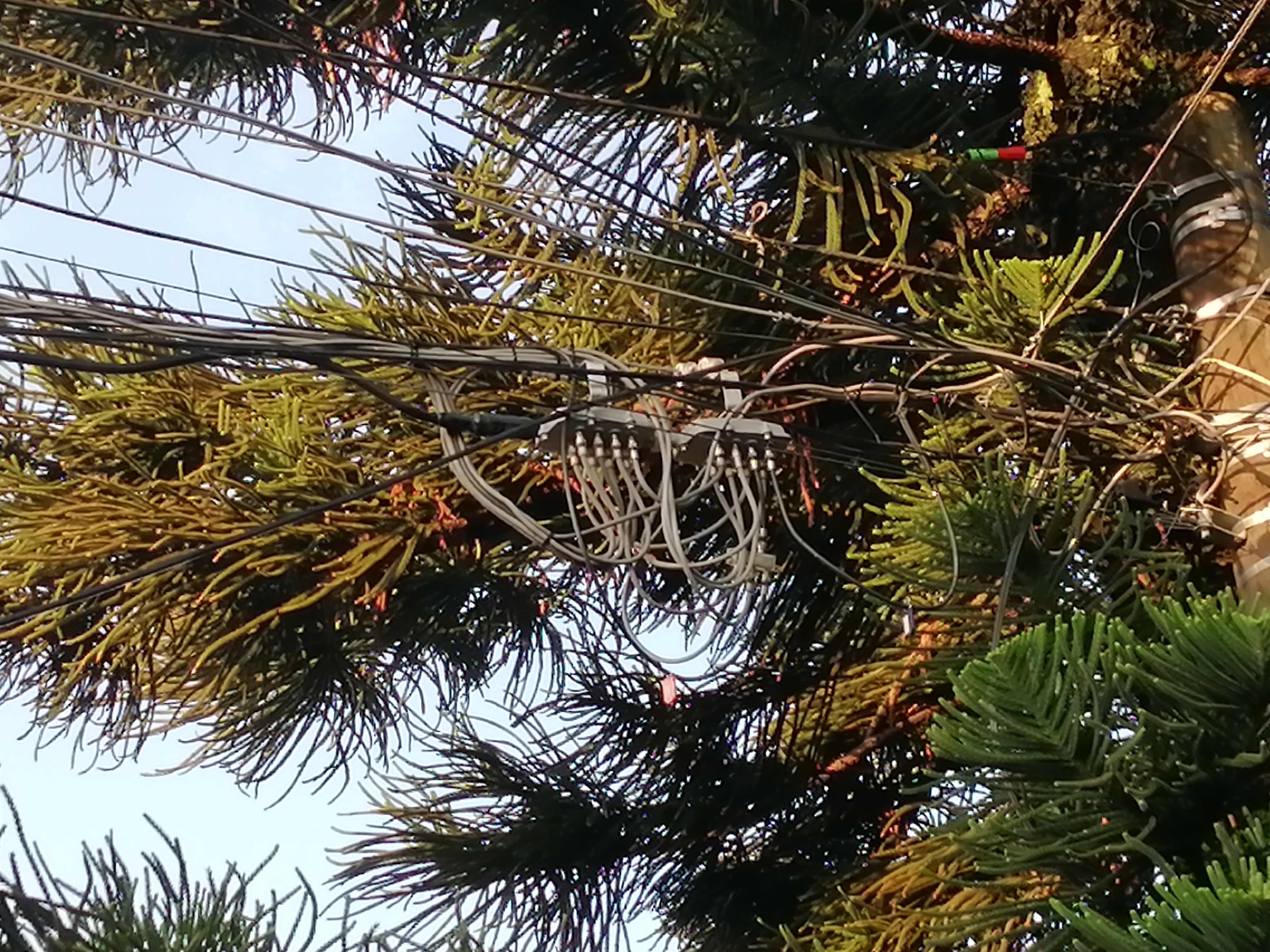 izzi telecom home connection